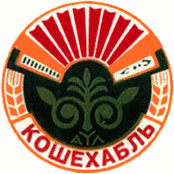 Coat of arms of Koshejabl Raion